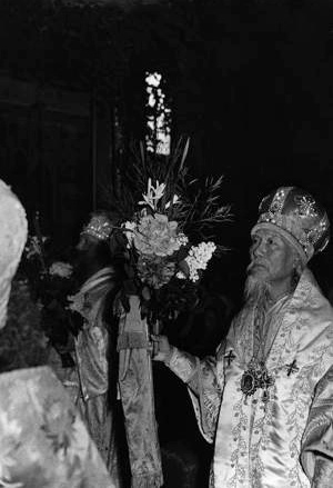 Vassili (Shuan), bishop of Shanghai